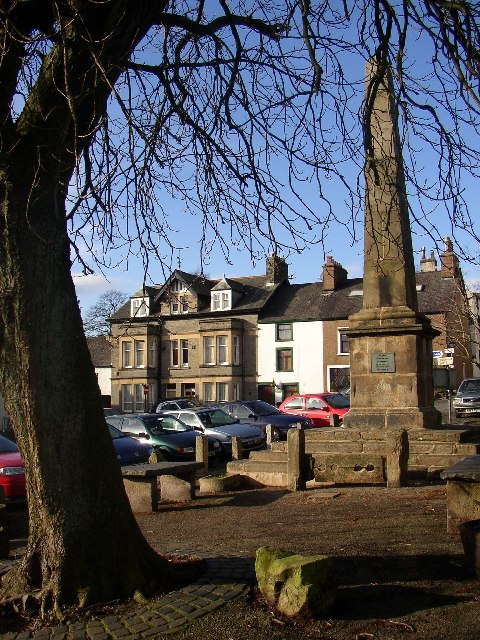 Sw Corner of The Square, Broughton-in-Furness. The Obelisk of 1810 was erected for the Golden Jubilee of George III. According to the OS map of 1888-9 the building with the bay windows was then a bank.